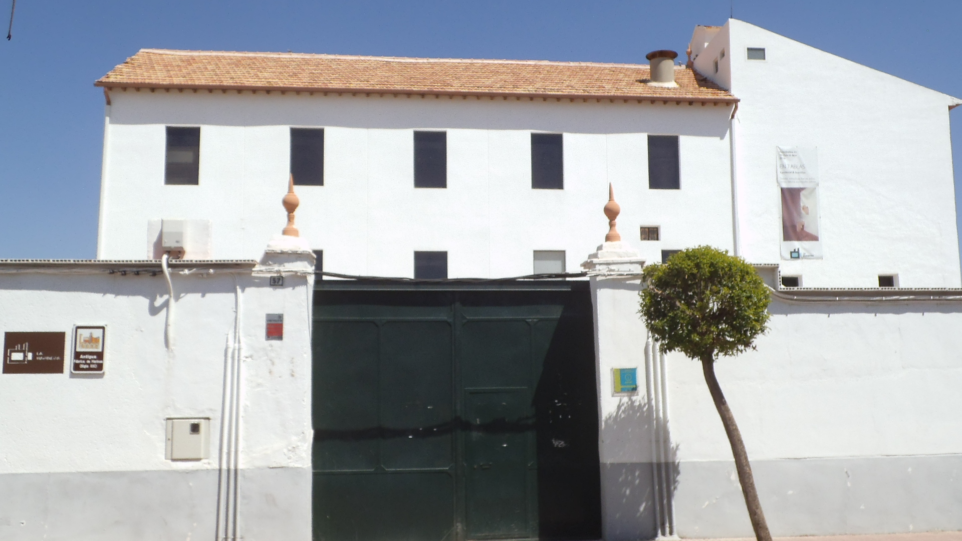 La Harinera cultural art center in Pedro Muñoz (Ciudad Real) (Spain).